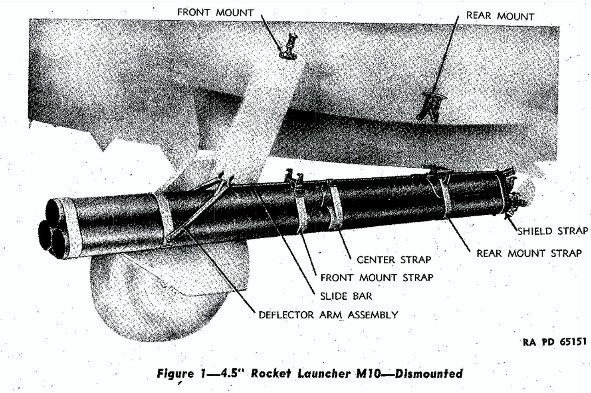 The M10 triple-tube rocket launcher for M8 4.5 inch (114 mm) calibre air-to-ground rockets, P-47 Thunderbolt mount shown.